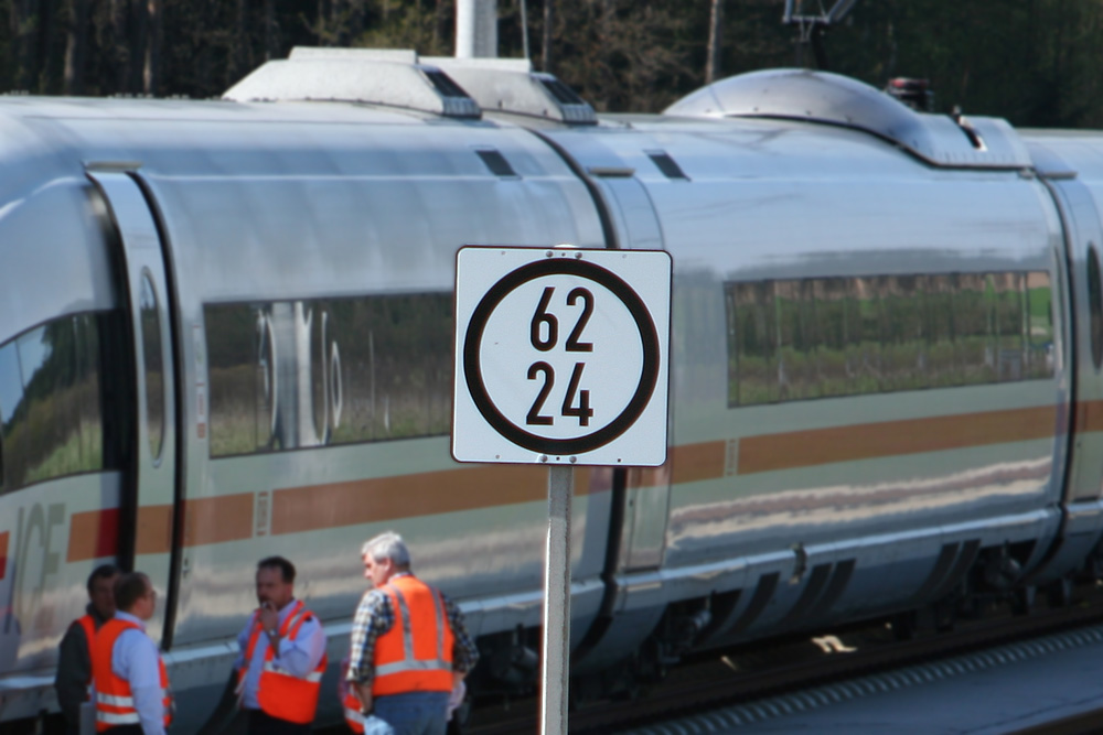 A sign indicating a new (virtual) signal block of the Linienzugbeeinflussung, a railway signalling system, on the Nuremberg-Ingolstadt high-speed railway line